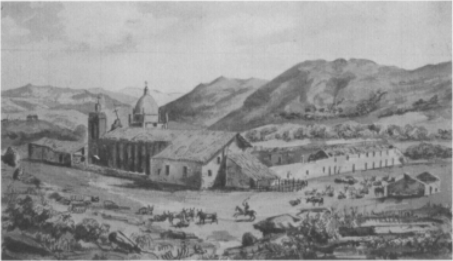 1854 lithograph of Mission San Carlos Borromeo de Carmelo, and portions of the San Jose y Sur Chiquito land grant near the mouth of the Carmel River.